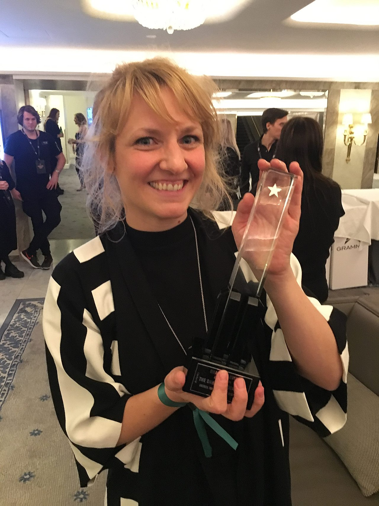 Andrea Tarrodi at the Swedish Grammy Awards 2018